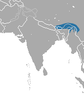 Forrest's Pika (Ochotona forresti) range